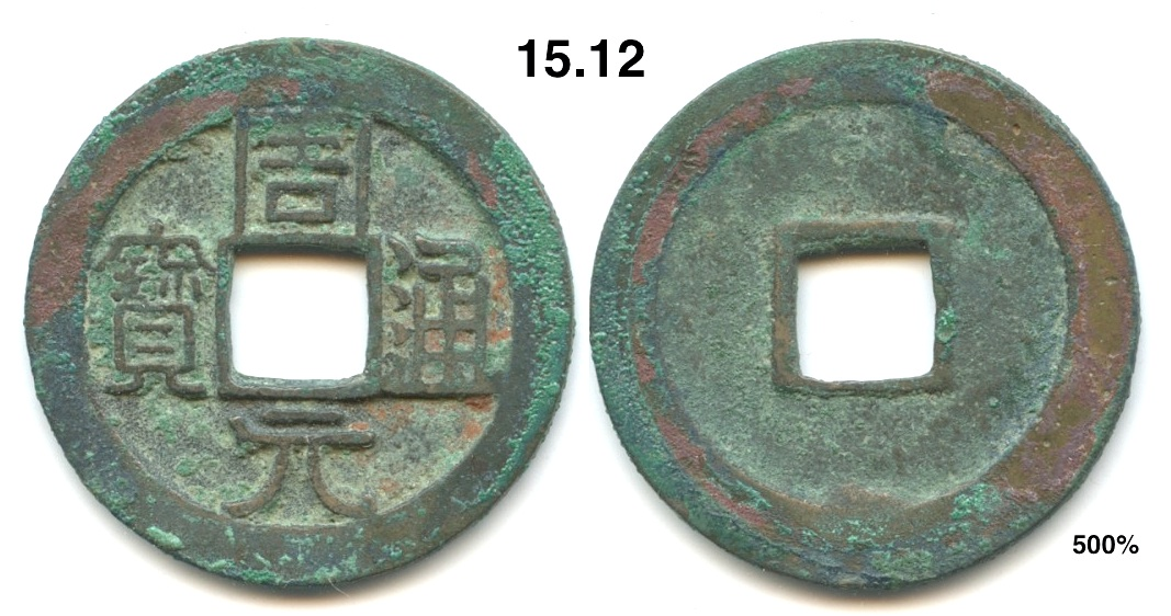 FIVE DYNASTIES / TEN KINGDOMS 907 - 960 AD PHOTO H# REIGN TITLE DESCRIPTION PRICE 15.12 Zhou Yuan tong bao Later Zhou Dynasty, Emp. Shi Zong, 955-60. (S411) VF-EF $ 20.00 15.17 Zhou Yuan tong bao: — s Later Zhou Dynasty, Emp. Shi Zong, 955-60. Note: bar below may be thick in middle, resembling downward crescent. S422 VF $ 17.50 15.42 Qian De yuan bao Former shu Kingdom: Wang Yan 919-25 S433 SAMPLES shown: Vg $8.50; AF-F $ 12.50 15.46 Xian Kang yuan bao Former shu Kingdom: Wang Yan 919-25 S434 Vg+ $ 25.00 15.80 Tang Guo tong bao Southern Tang Kingdom: Emp. Yuan Zu, 943-61, AD 959 onward; Seal script. S441 shown: Hoard EF-UC $ 10.00 15.90 Tang Guo tong bao Southern Tang Kingdom: Emp. Yuan Zu, 943-61; Li script, Variety: Small size 20-20.5mm. S444 SAMPLES shown. Hoard EF-UC $ 26.50 15.99 Kai Yuan tong bao Southern Tang Kingdom: Emp. Li Yu, 961-78; Seal script. S446 SAMPLES shown. VF $ 6.00 15.162 Yong An Yi Bai Liu Dynasty of You Zhou (Hebei), IRON 100 Cash, 32.3 mm, 14.757 gm. FD835, S-nl, HG396/4 Crude $ 1,200.00.